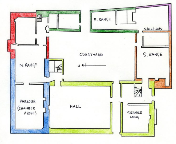 Plan of The Abbey, Sutton Courtenay, Oxfordshire, England